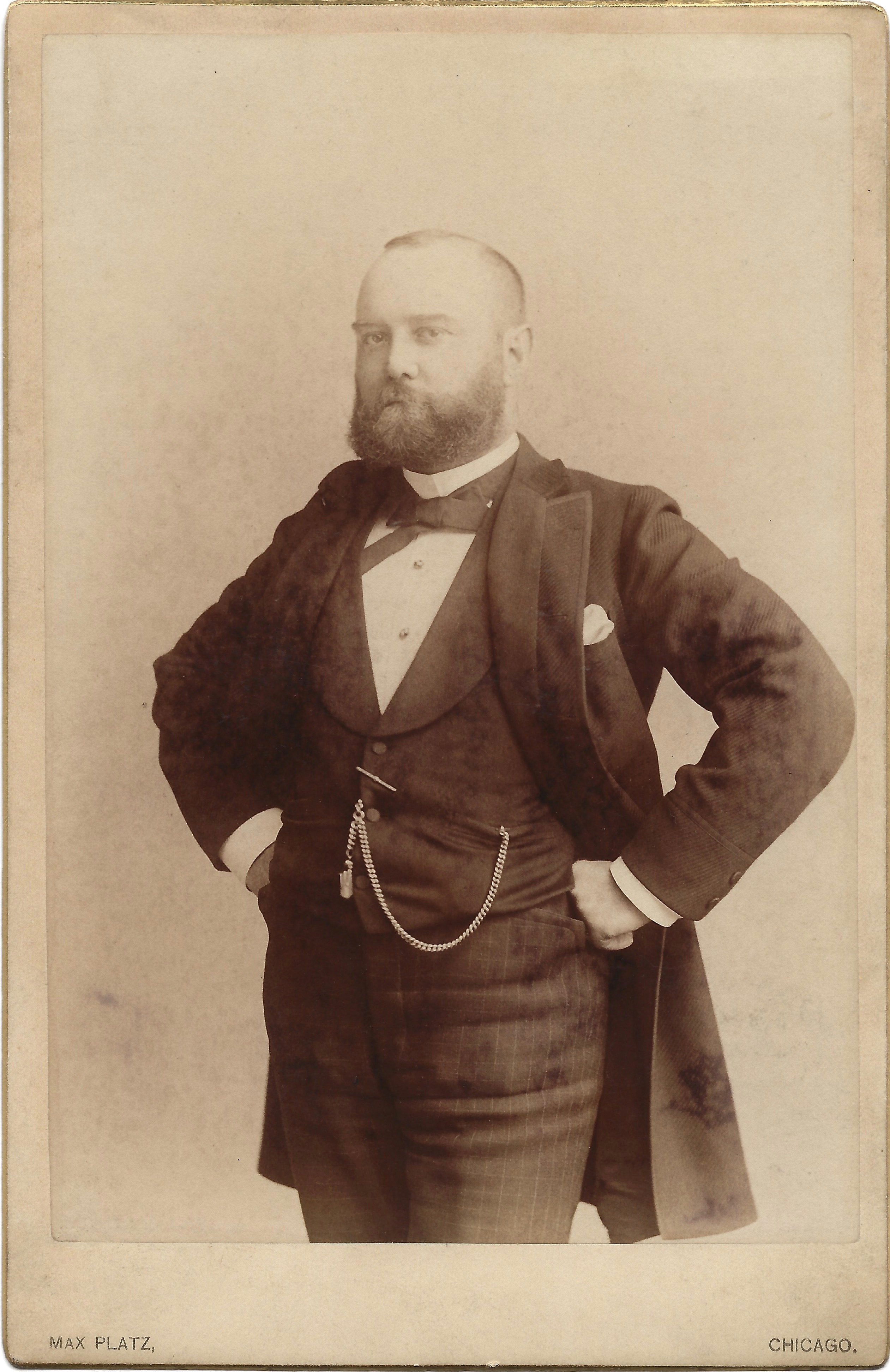 A cabinet card by Max Platz of Chicago featuring Washington Hesing ca. 1880